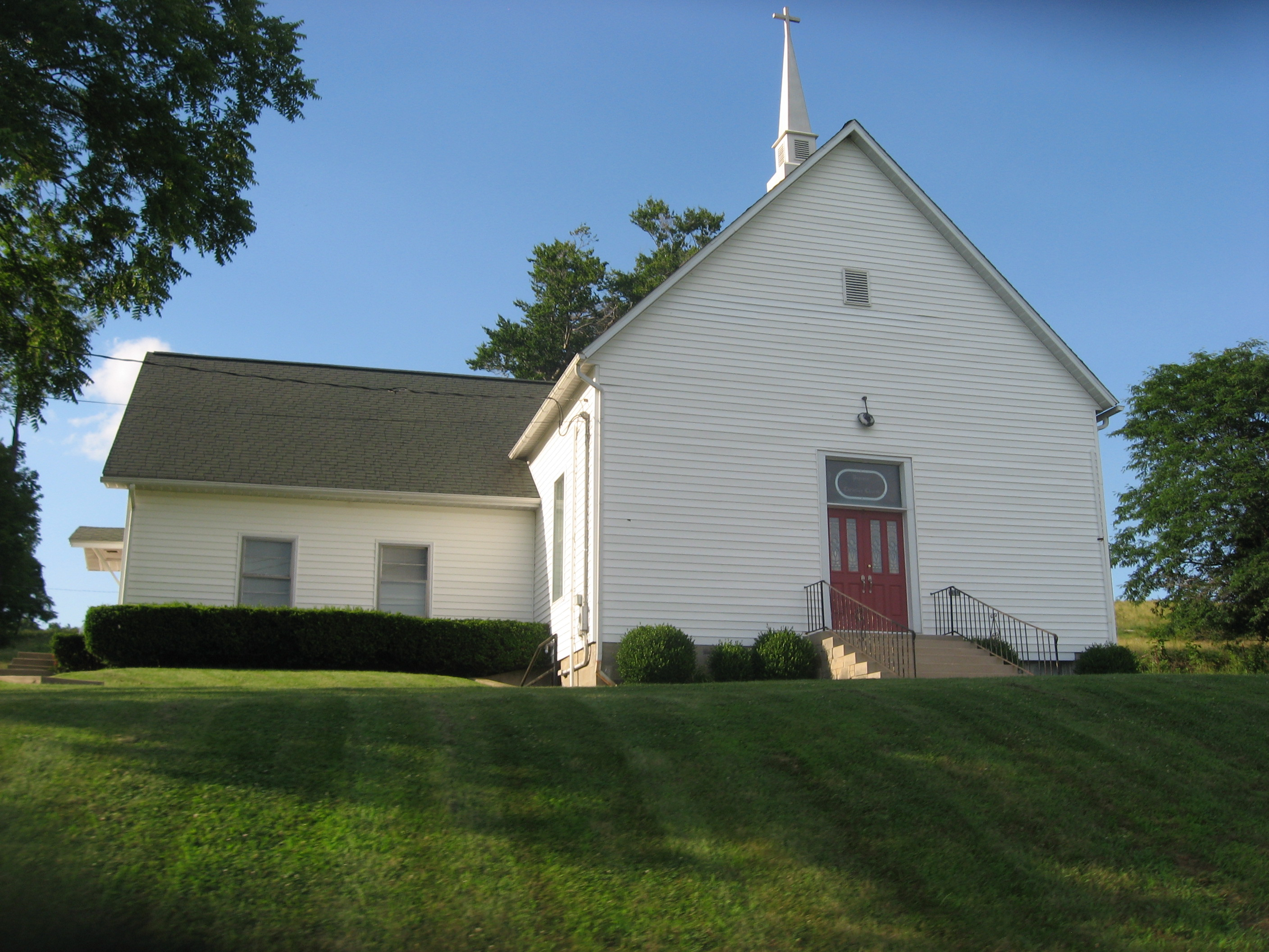 Front of the Popcorn Christian Church, located along its namesake Popcorn Church Road at Popcorn in Perry Township, Lawrence County, Indiana, United States. It was built in 1872.